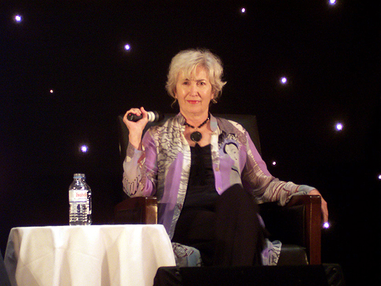 Jennifer Rhodes in 2006